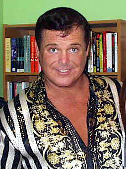 Jerry "The King" Lawler at a book signing in San Diego, CA.